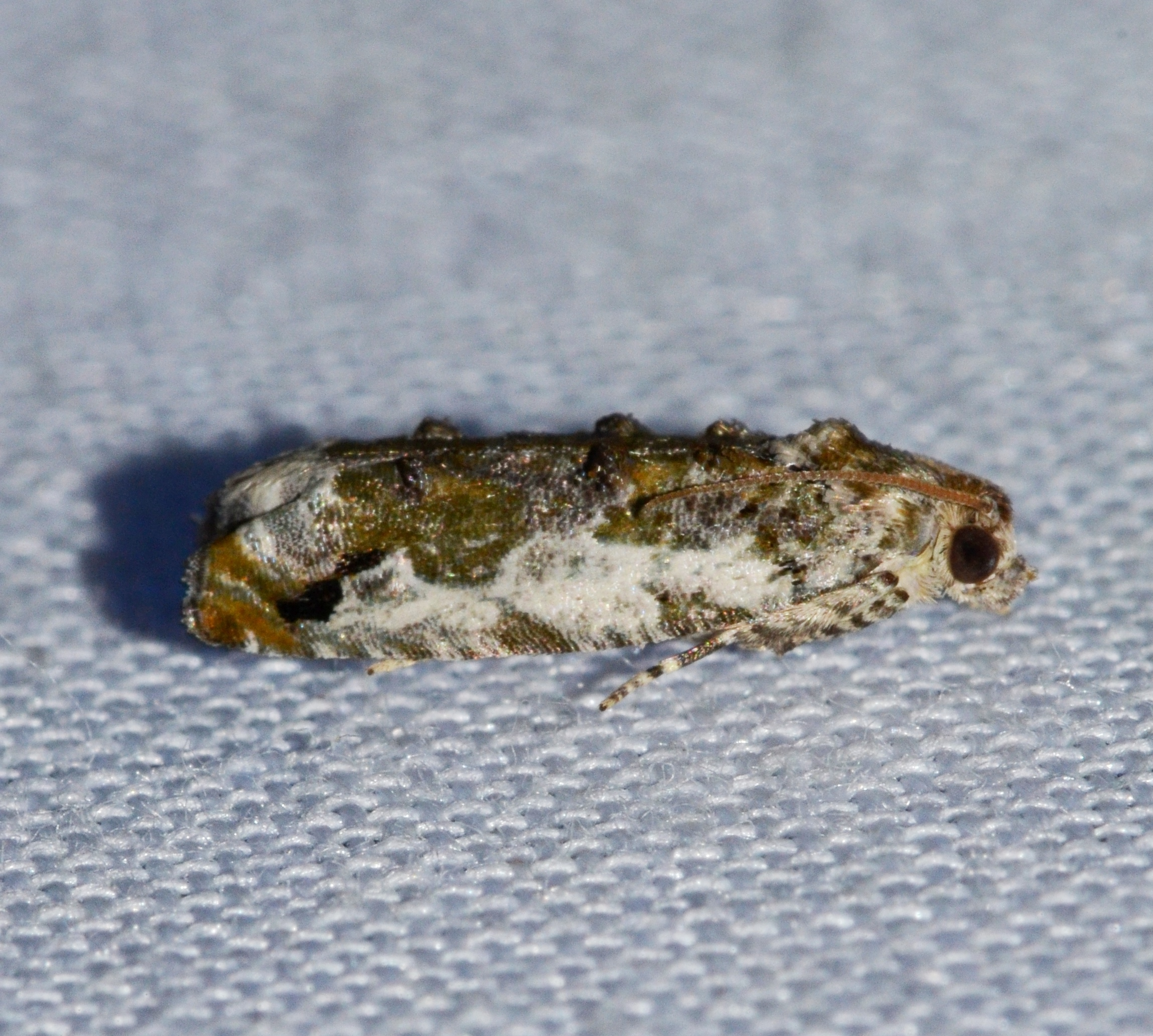 Mothing Night 5/23/14 ID thanks to Ken Childs